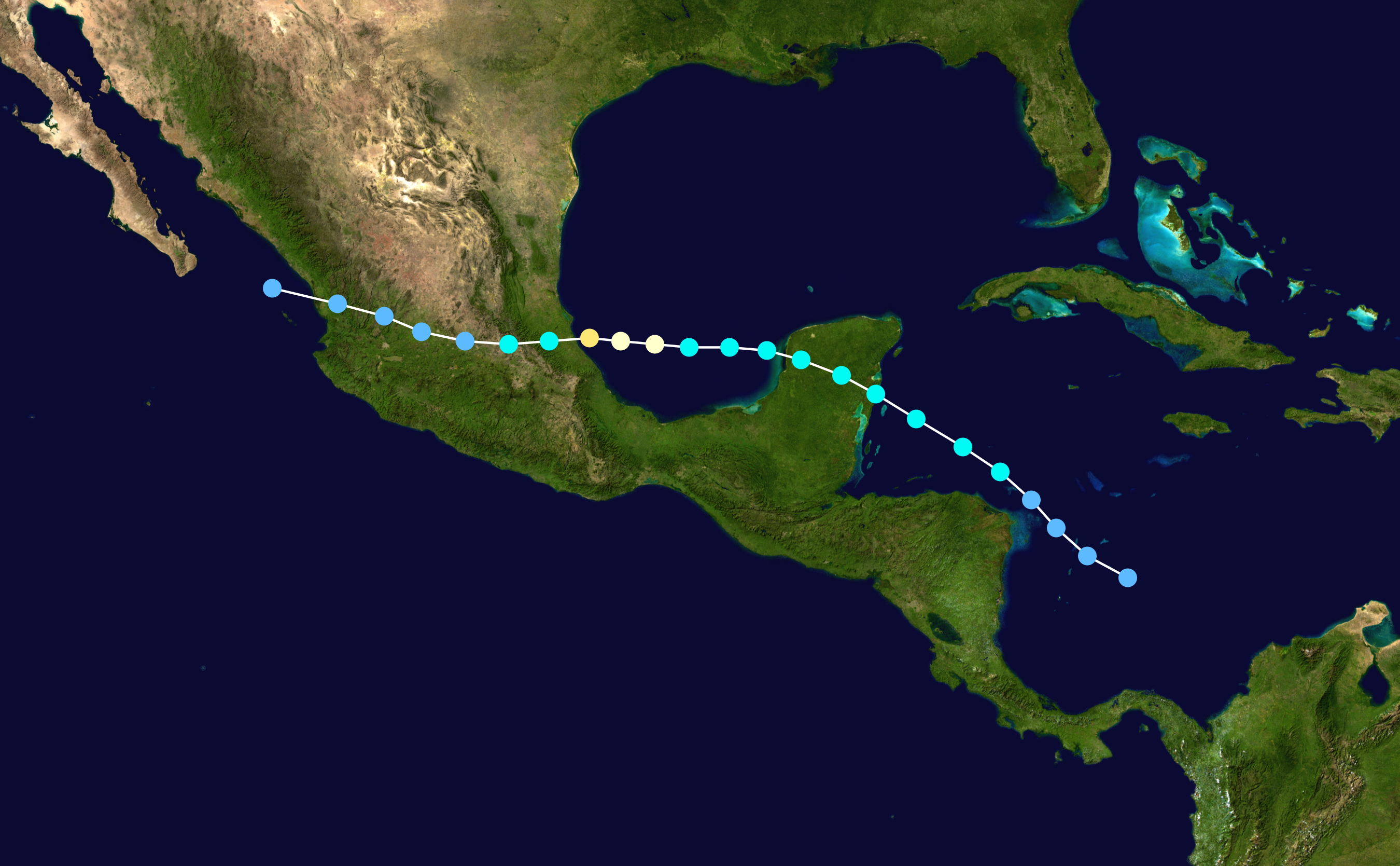 Track map of Hurricane Diana of the 1990 Atlantic hurricane season. The points show the location of the storm at 6-hour intervals. The colour represents the storm's maximum sustained wind speeds as classified in the Saffir–Simpson scale (see below), and the shape of the data points represent the nature of the storm, according to the legend below. Saffir–Simpson scale Tropical depression≤38 mph≤62 km/h Category 3111–129 mph178–208 km/h Tropical storm39–73 mph63–118 km/h Category 4130–156 mph209–251 km/h Category 174–95 mph119–153 km/h Category 5≥157 mph≥252 km/h Category 296–110 mph154–177 km/h Unknown Storm type Tropical cyclone Subtropical cyclone Extratropical cyclone / Remnant low / Tropical disturbance / Monsoon depression